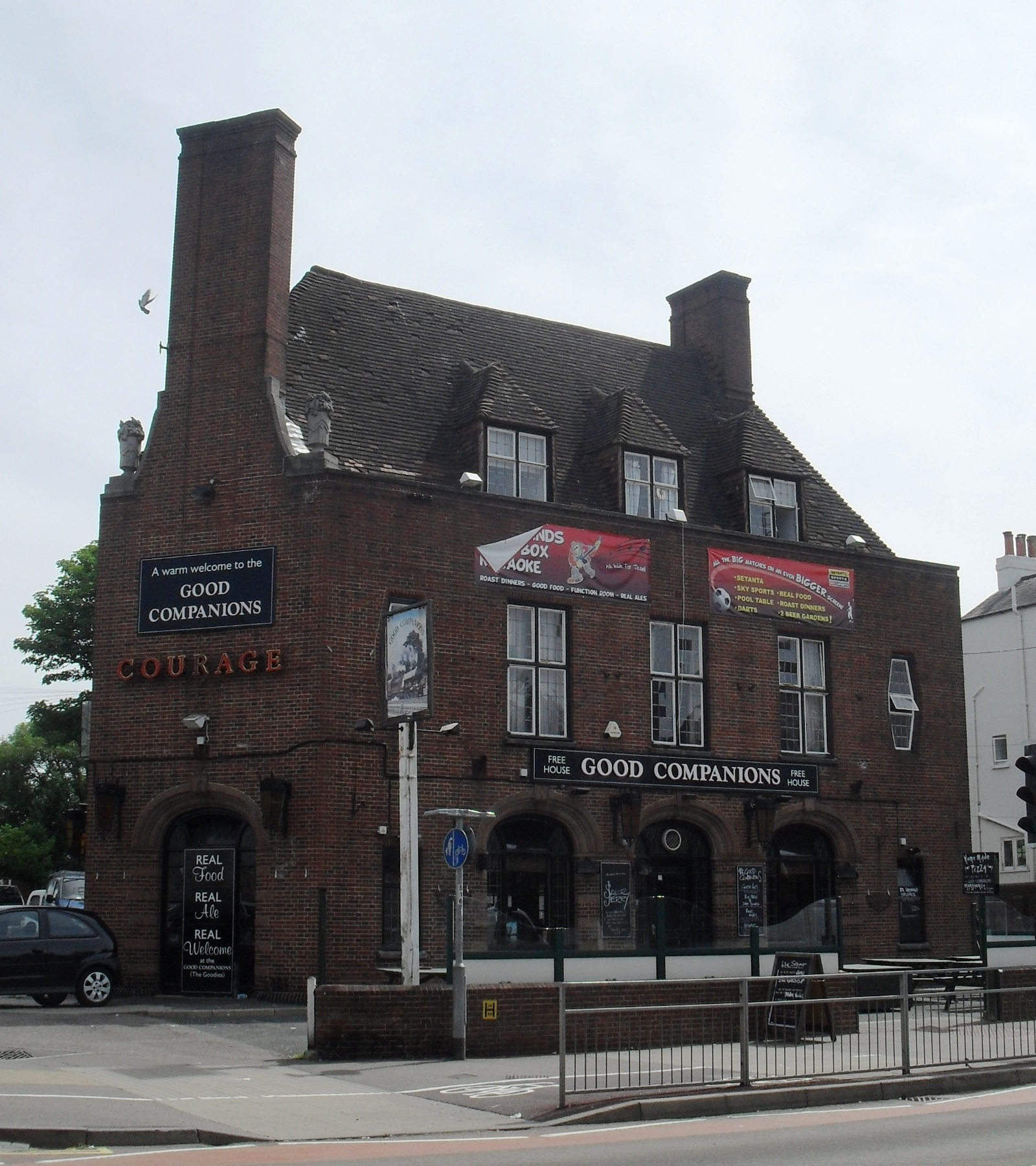 The Good Companions Pub, Dyke Road, Prestonville, City of Brighton and Hove. Built in 1939 for the Tamplins Brewery by their in-house architect Arthur Packham.